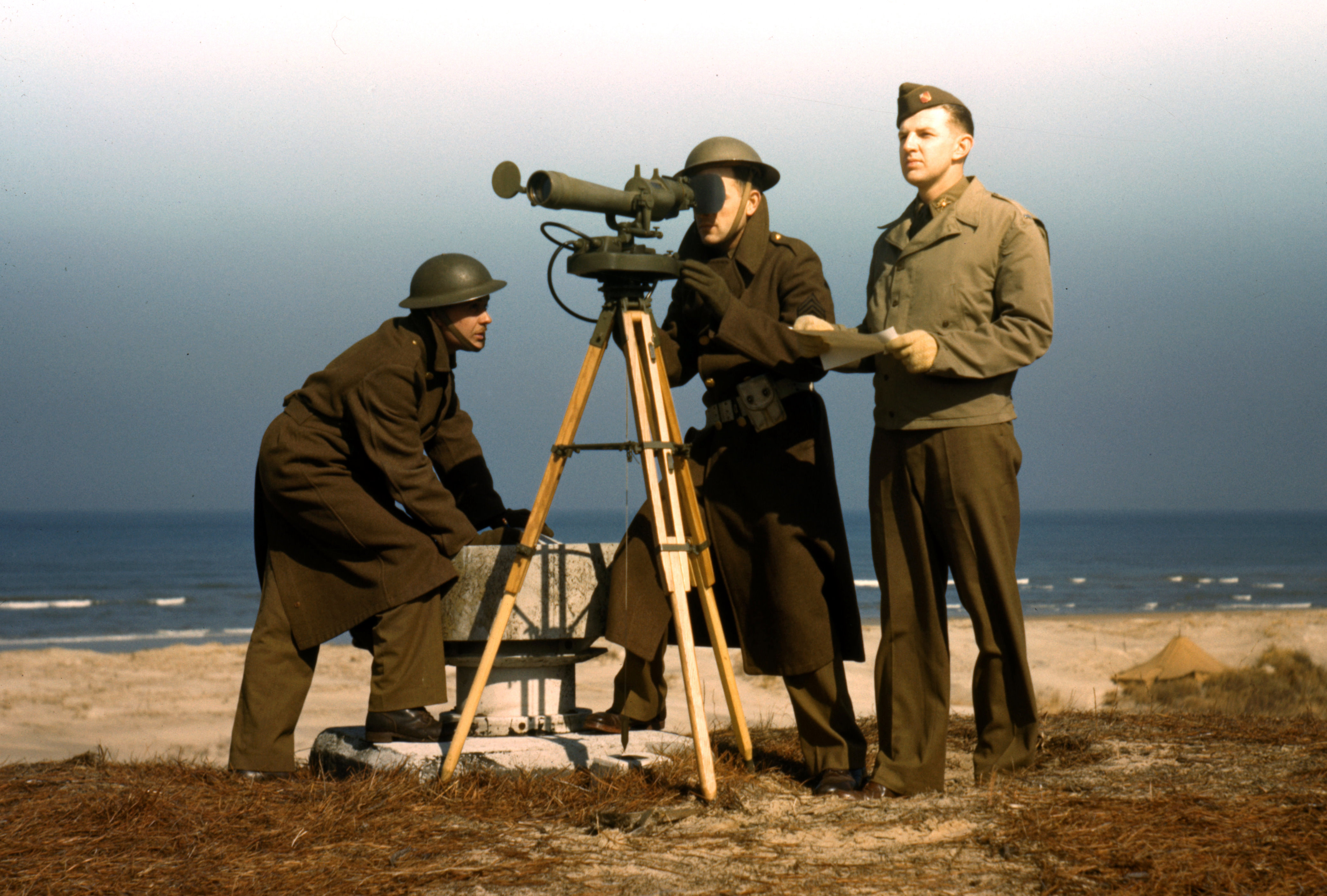 "Men of Fort Story operate an azimuth instrument, to measure the angle of splash in sea-target practice". Fort Story, Virginia, United States